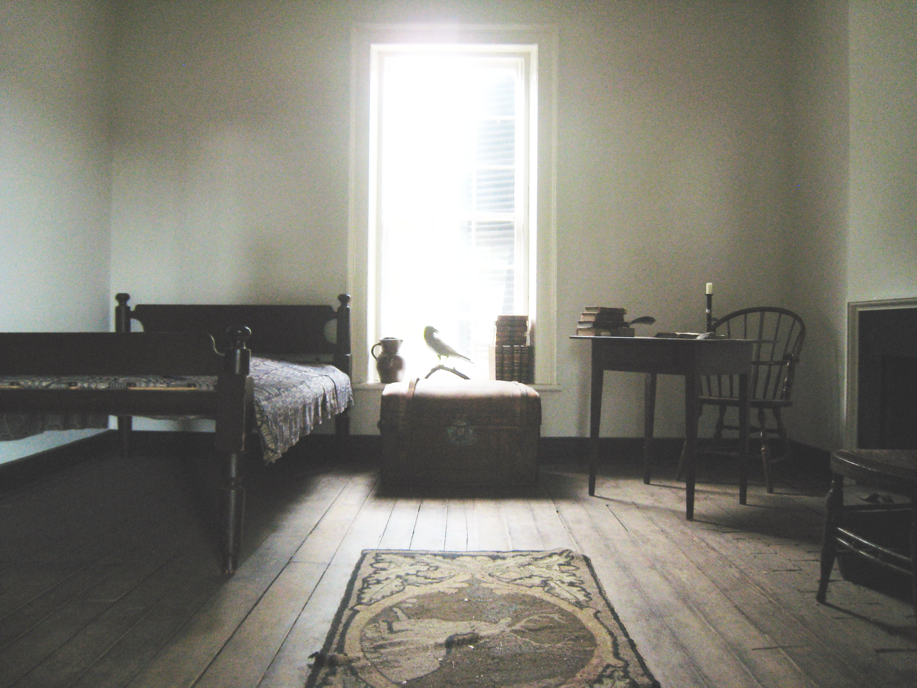 Edgar Allan Poe's room